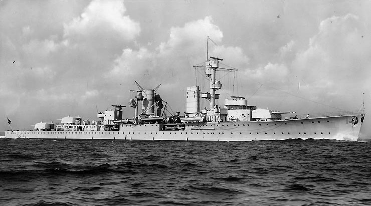 German Light Cruiser Karlsruhe (1929–1940)